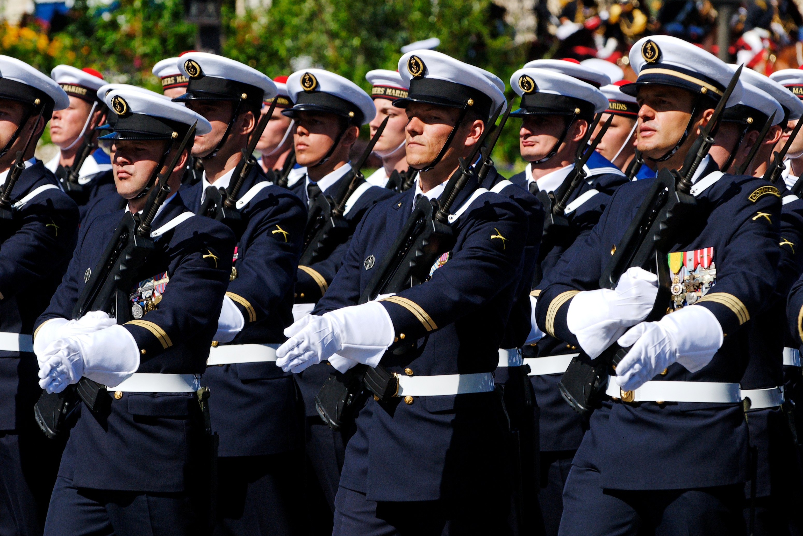 Group of Naval Fusiliers on parade in Toulon, Bastille Day 2008 military parade on the Champs-Élysées, Paris.